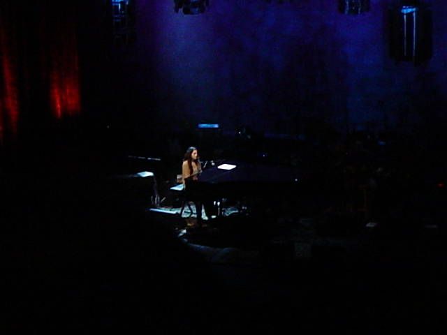 Norah Jones performing at the Hammersmith Apollo in London.